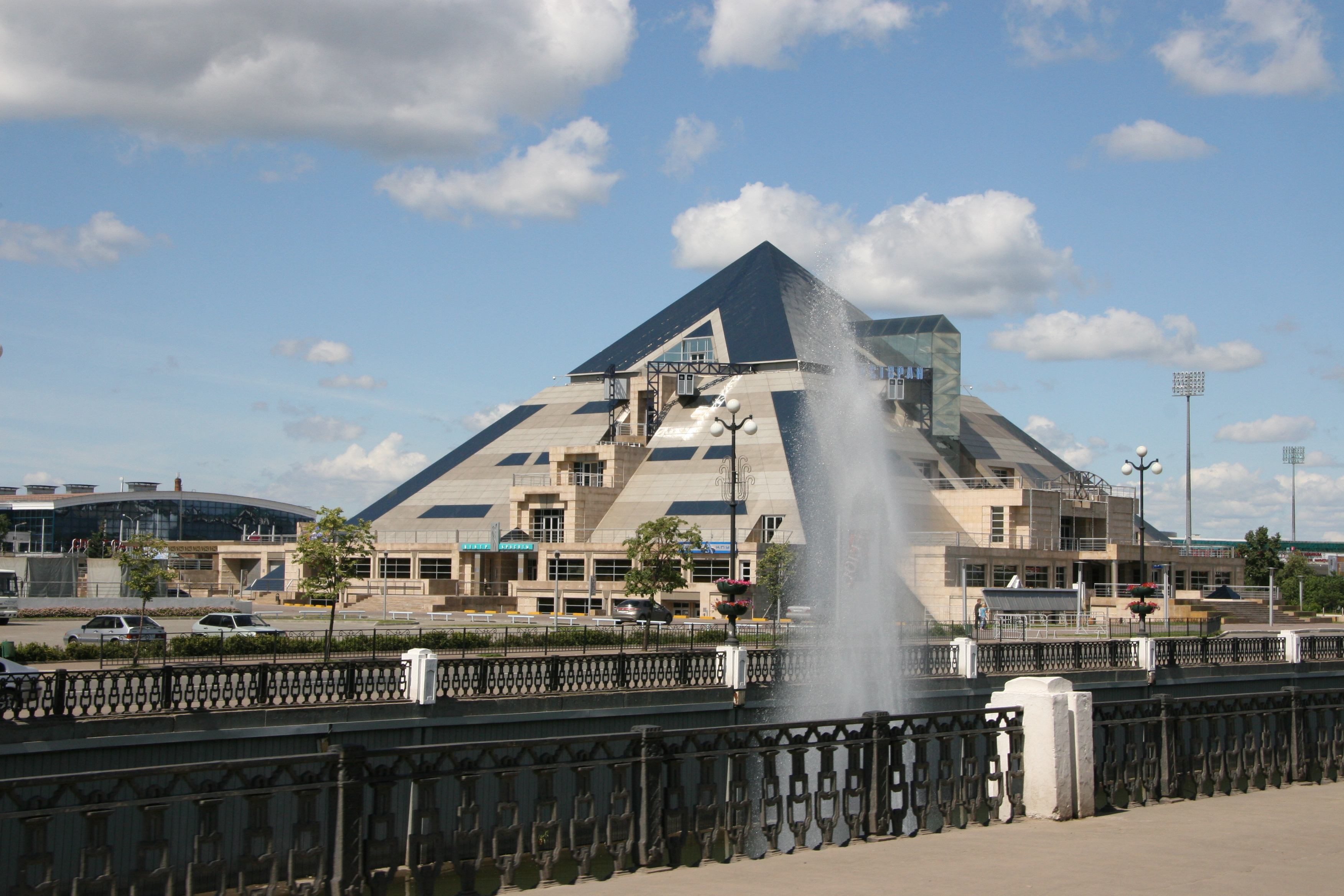 Pyramid culture-entertainment complex in Kazan